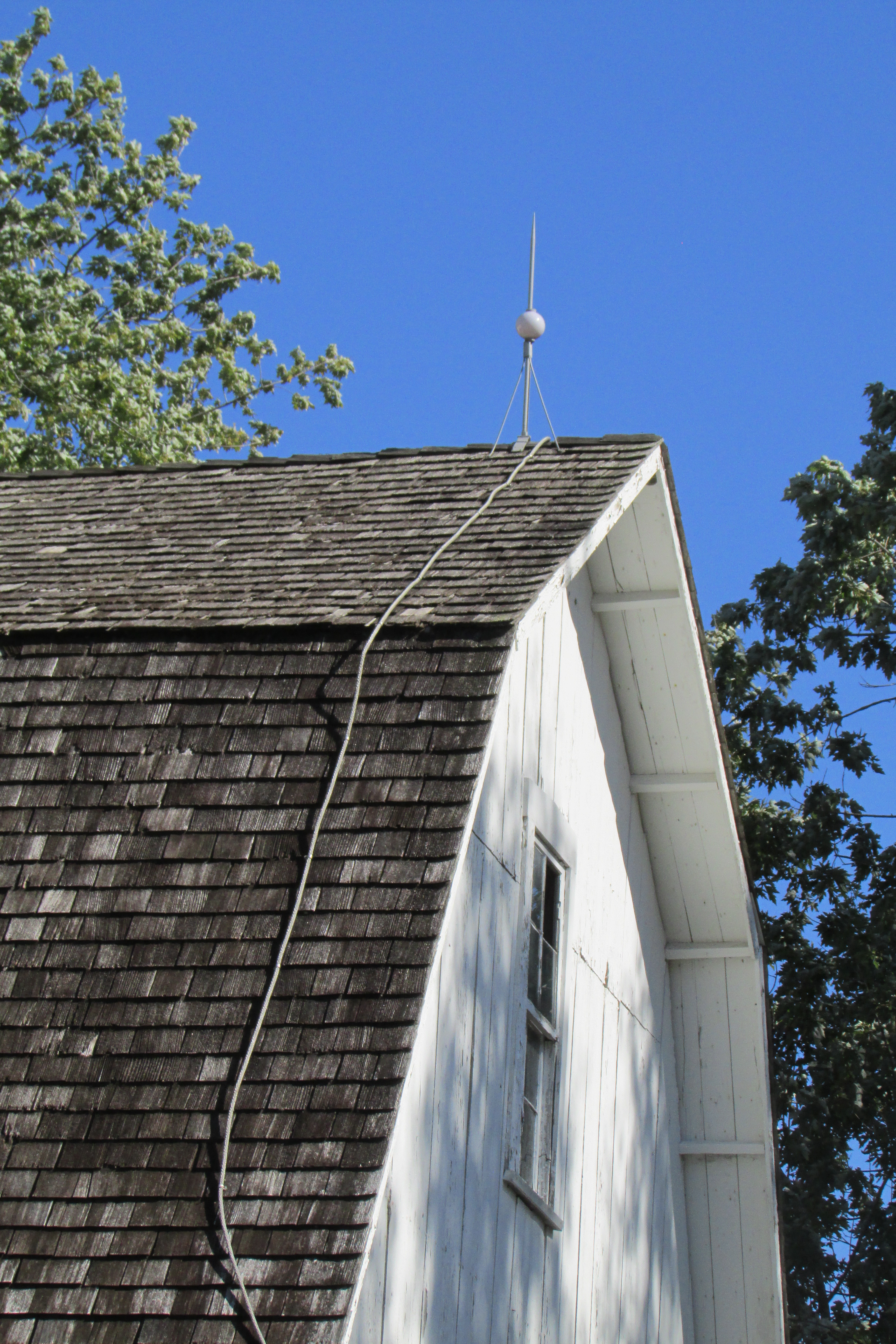 Granary Lightning Rod, Buckley Homestead County Park.